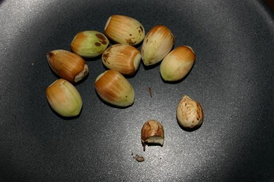 Hazelnuts